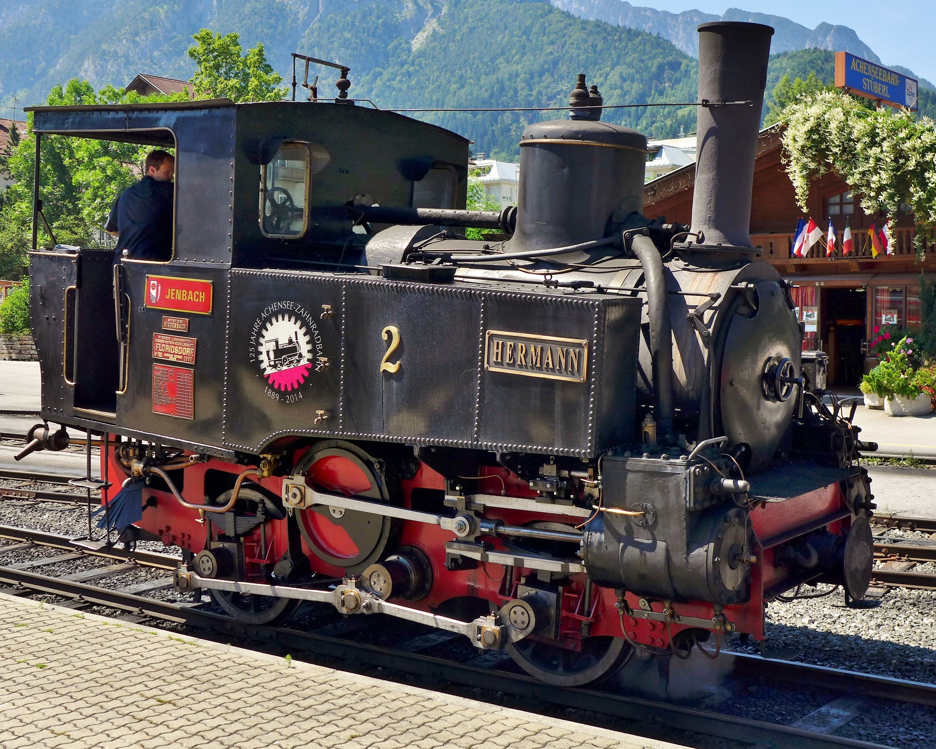 View of the Achensee Railway's cogwheel steam locomotive no. 2, Hermann (also known as Jenbach), returning to the platform after taking water at Jenbach railway station.